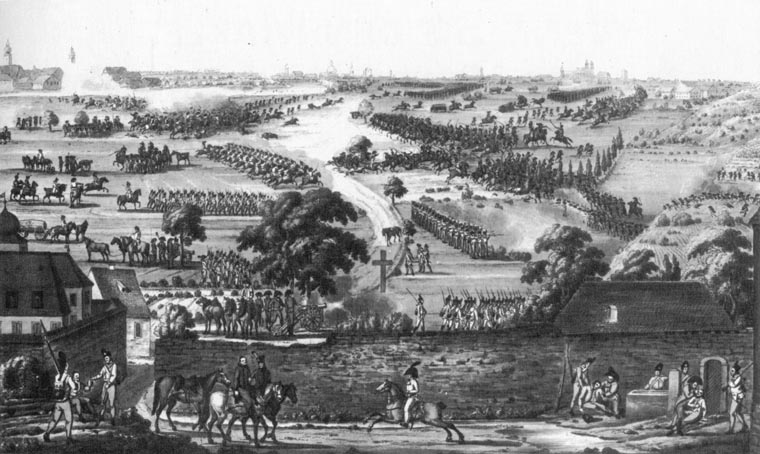 Battle at Handschuhsheim on 24 September 1795. Drawn by Friedrich Rottman, Kurpfalz Museum, Tinted and colored, Inv. Nr. S2929.